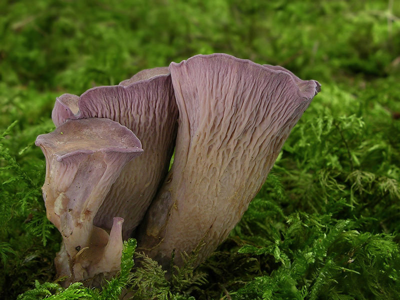 Gomphus clavatus